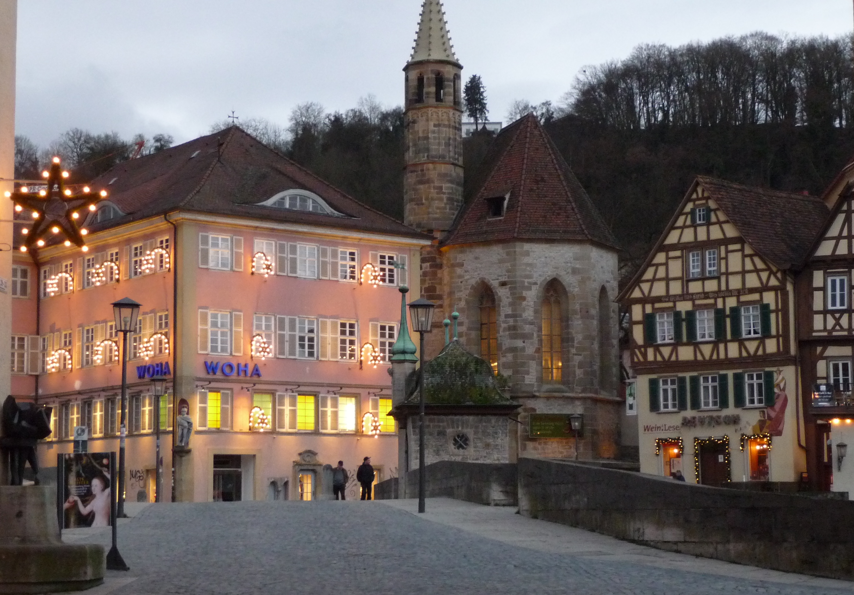 Johanniterhalle in Schwäbisch Hall, Germany 12/15th century